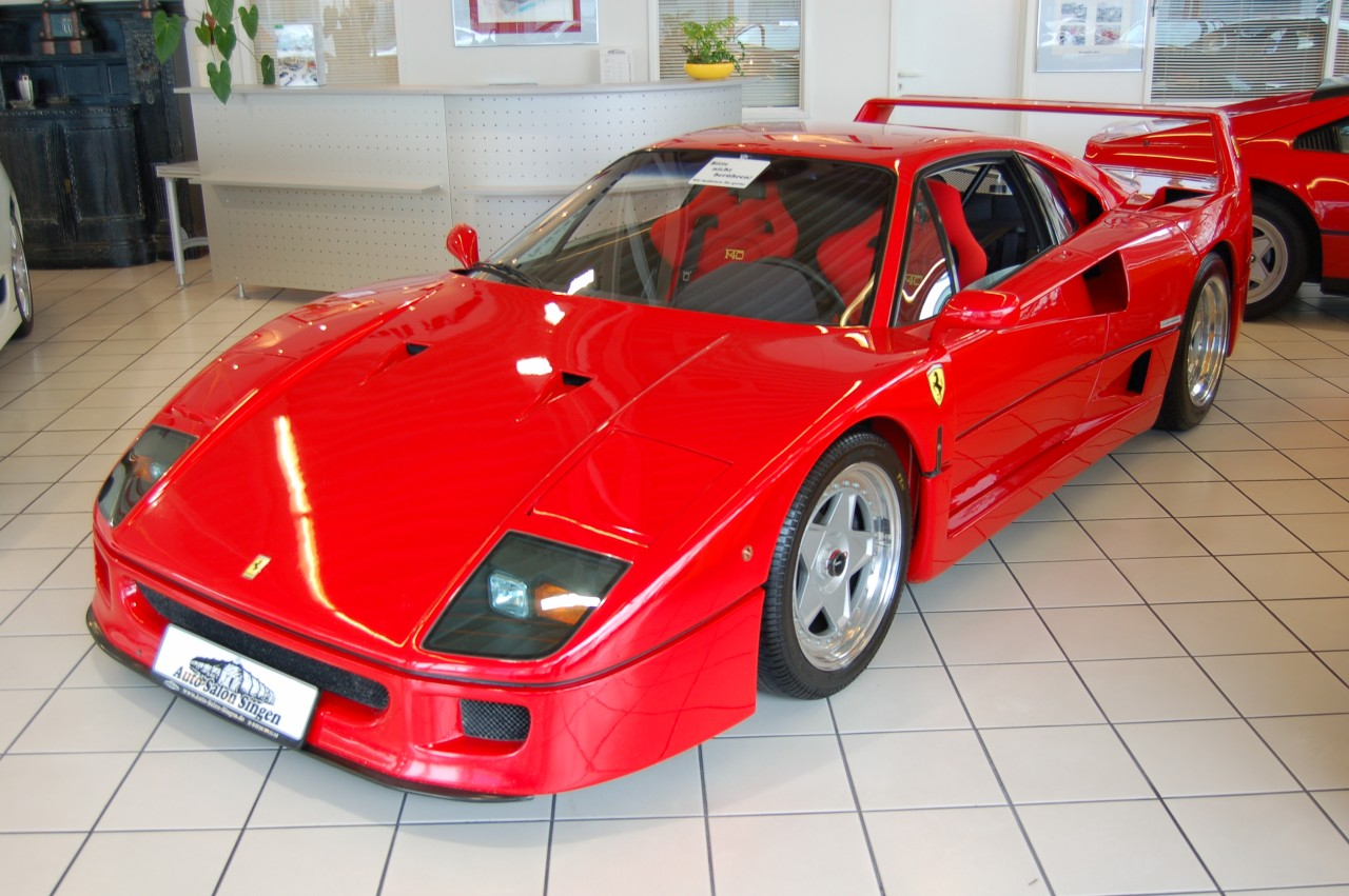 Ferrari F40 at Auto Salon Singen, Germany.